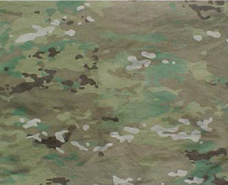 Scorpion W2, Operational Camouflage Pattern (OCP) swatch